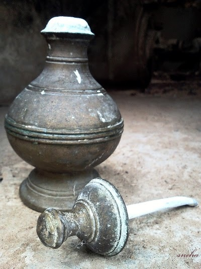 A vessel used to store calcium